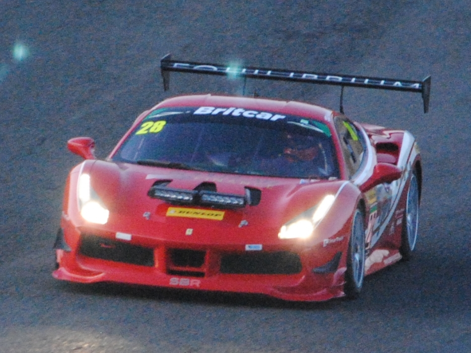 The British GT GTC Class champions, Paul Bailey and Andy Schulz, 2019 Britcar Overall and Class 2 champions in a Ferrari 488 Challenge.